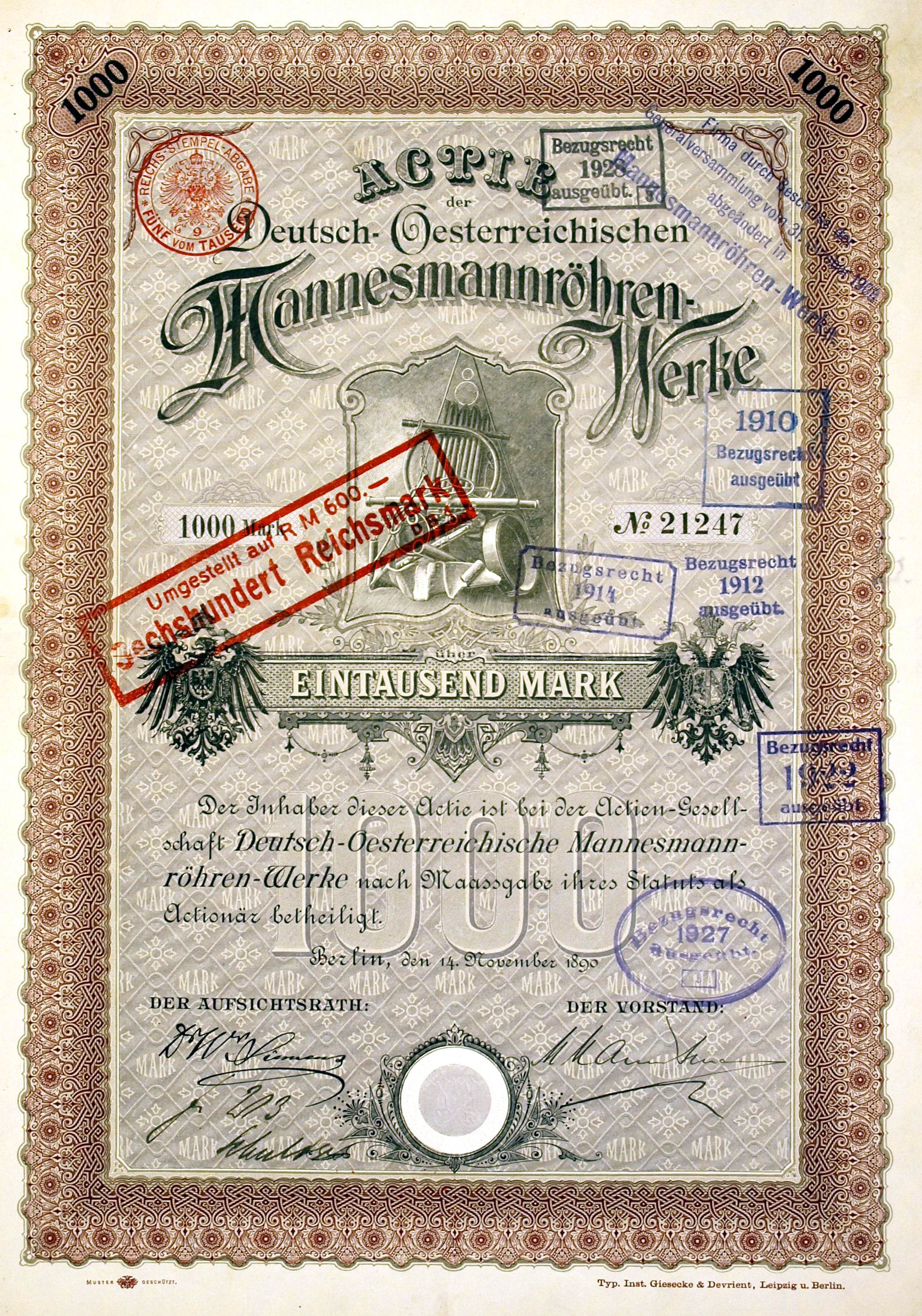 Share of the Deutsch-Oesterreichischen Mannesmannröhren-Werke, issued 14. November 1890, signed by Max Mannesmann